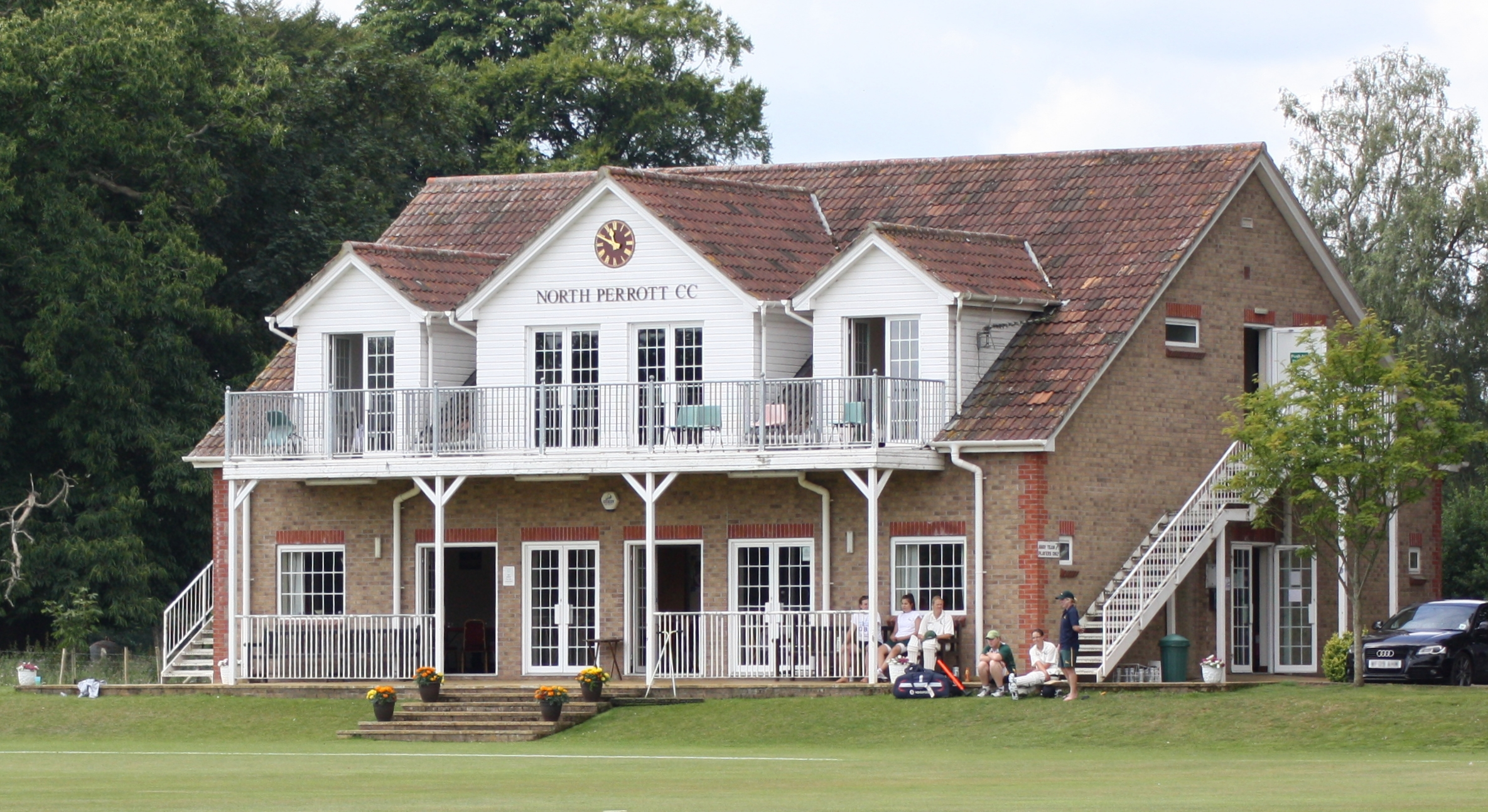 The cricket pavilion at North Perrott Cricket Club Ground, opened in 2000. Photographed during a LV Women's County Championship match between Somerset and Nottinghamshire in 2010.